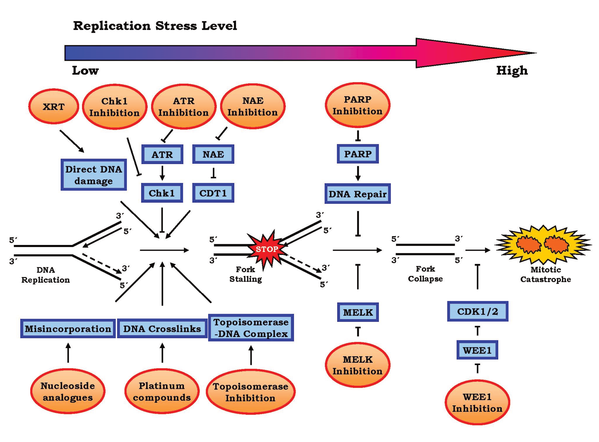 As indicated, with the progression from DNA replication fork stalling to folk collapse and eventually premature entry of mitotic phase, there is accompanying enhancement of DNA replication stress. Shown here are different approaches exploited to enhance this stress level. While chemotherapeutic agents use different approaches to induce fork stalling (e.g., nucleotide disincorporation, DNA crosslinks and topoisomerase—DNA complex), radiation (XRT) induces direct DNA damage. These genetic errors activate ATR-Chk1 signaling which prevents further fork stalling. Therefore, inhibitors of either ATR or Chk1 may enhance replicative stress. Since both PARP and MELK prevent the progression to fork collapse, their corresponding inhibitors may also augment the level of replicative stress. Because the ubiquitin ligase substrate CDT1 causes DNA to replicate more than once and its activity is inhibited by neddylation, the NAE inhibitor can also be used to achieve this purpose. Finally, WEE1 inhibitor activates CDK1/2, therefore facilitating premature entry to S phase. The final consequence of all these approaches is cell death through mitotic catastrophe that is induced by the enhancement of replicative stress.[1]